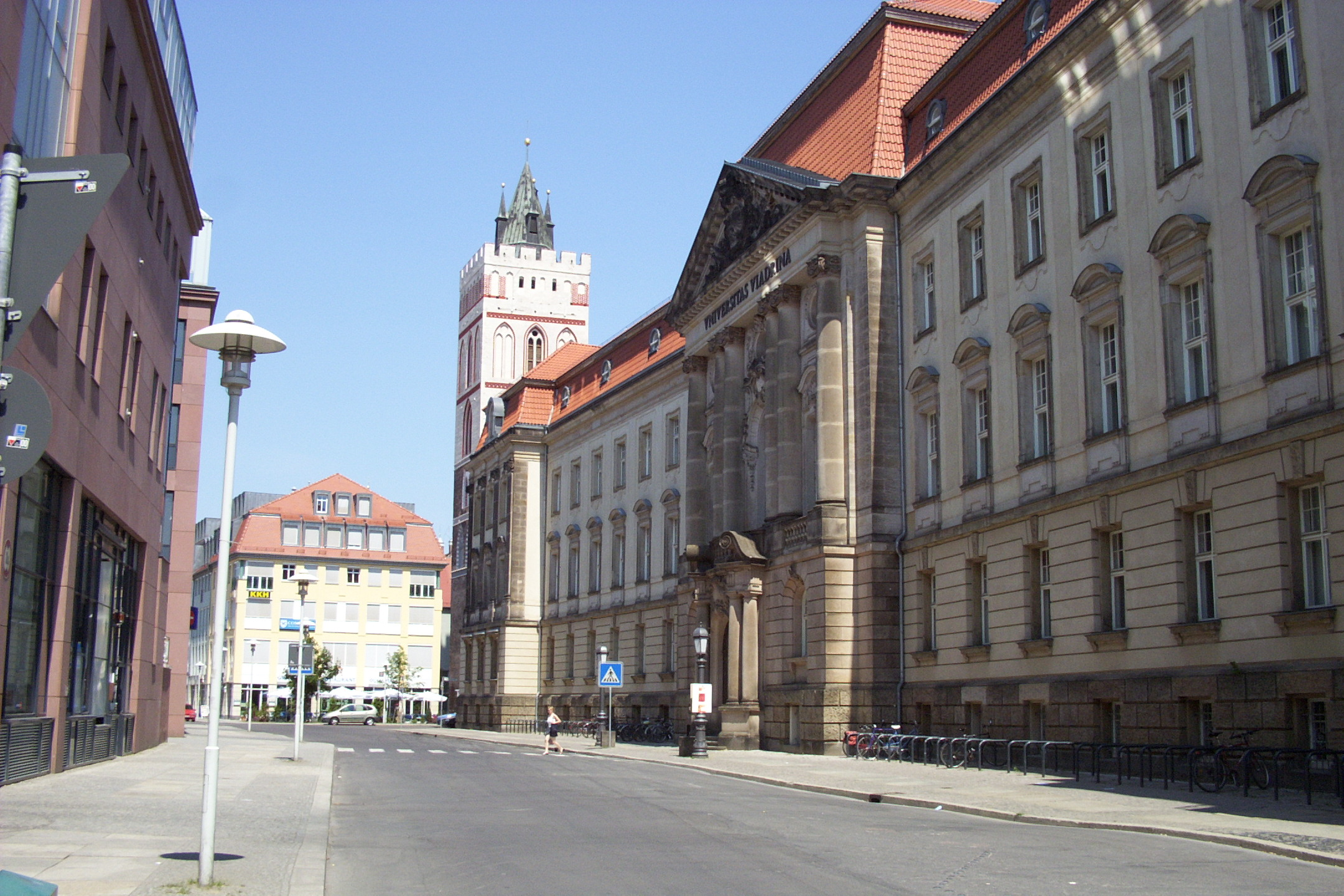 The Viadrina European University with the tower of the Marienkirche, Frankfurt (Oder). Taken by ProhibitOnions, 2003.